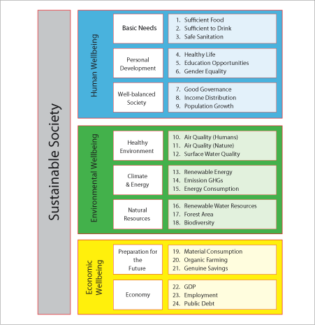 Franewrok of the SSI 2010